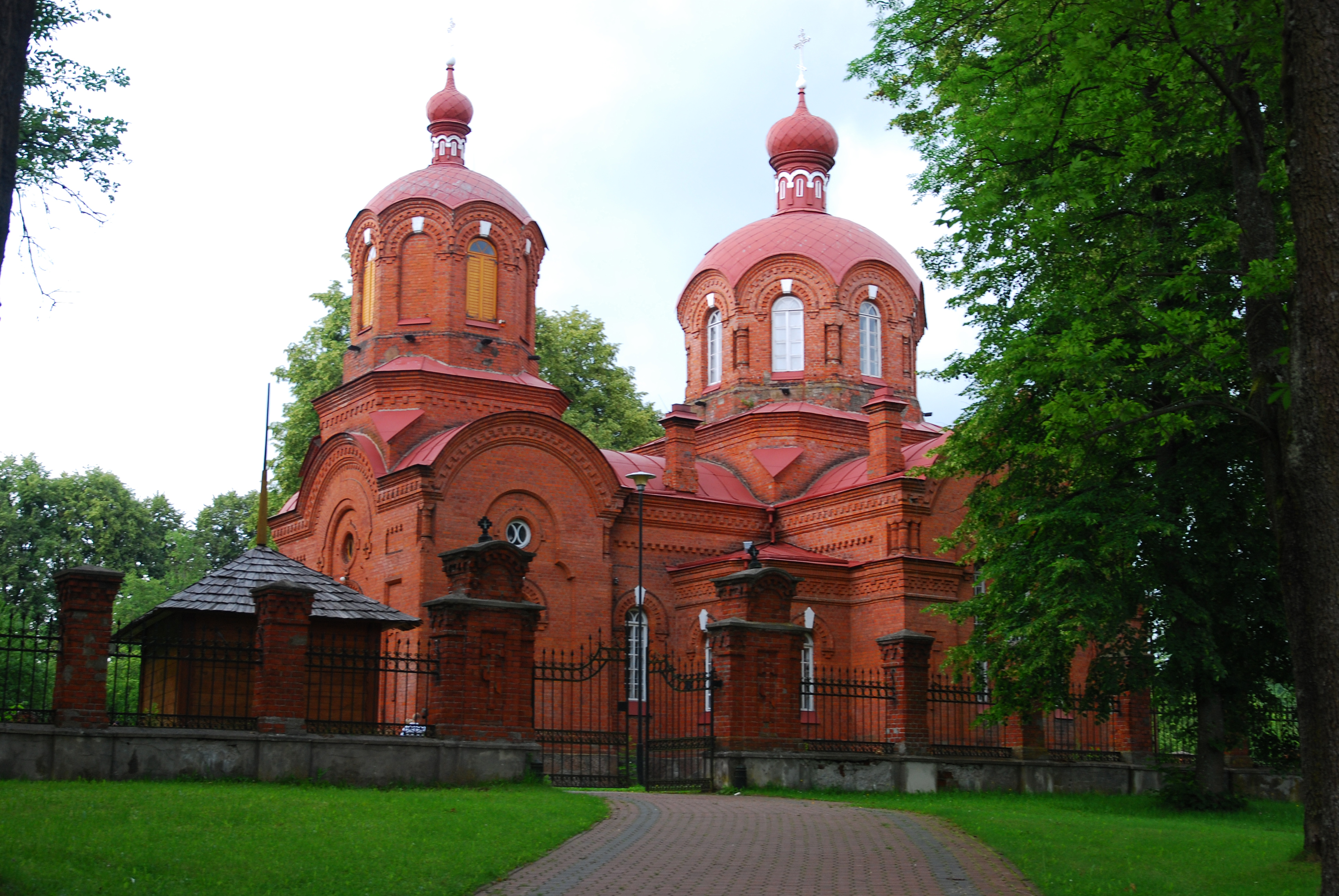 This photo from Podlaskie Voievodeship was taken during Polish Wikiexpedition 2009 set up by Wikimedia Polska Association. The making of this document was supported by Wikimedia Polska. Cerkiew w Białowieży